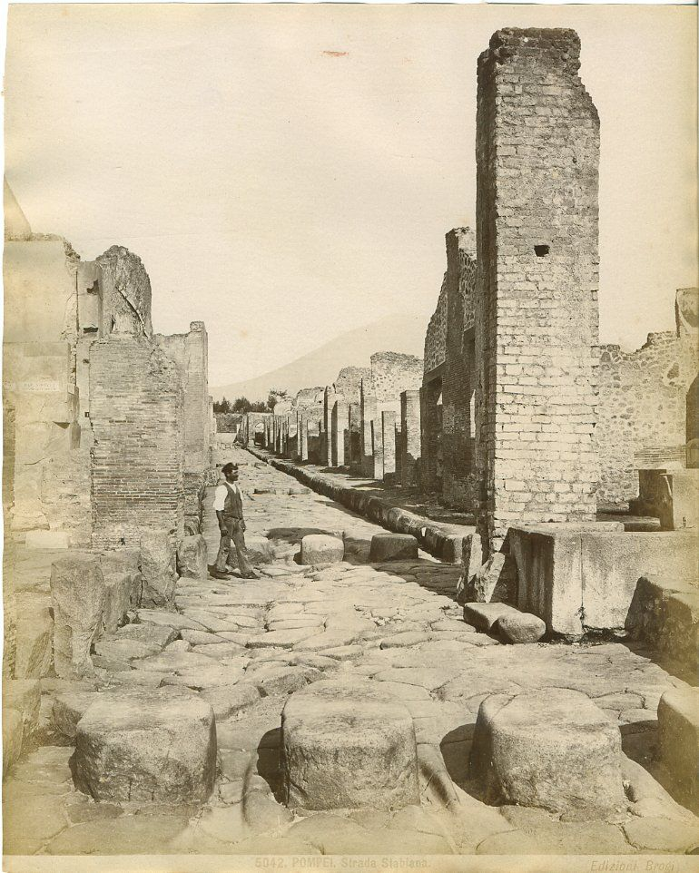 Giacomo Brogi (1822-1881) - "Pompeii. Stabian street". Catalogue: # 5042.